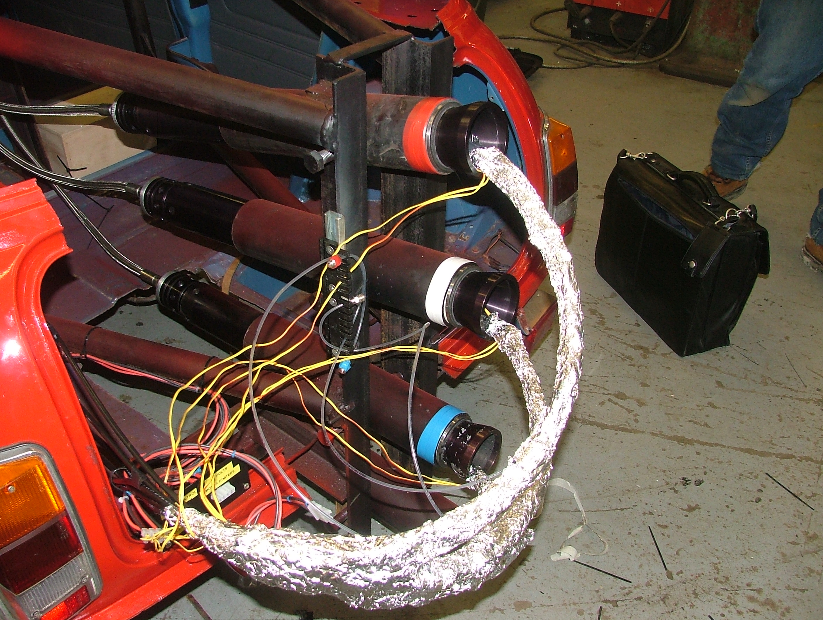 The RocketMen Limited. Mini